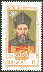 Stamp of Moldova